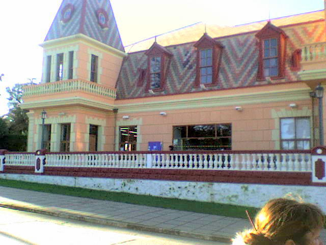 A photo taken by me of the Casino Ross.